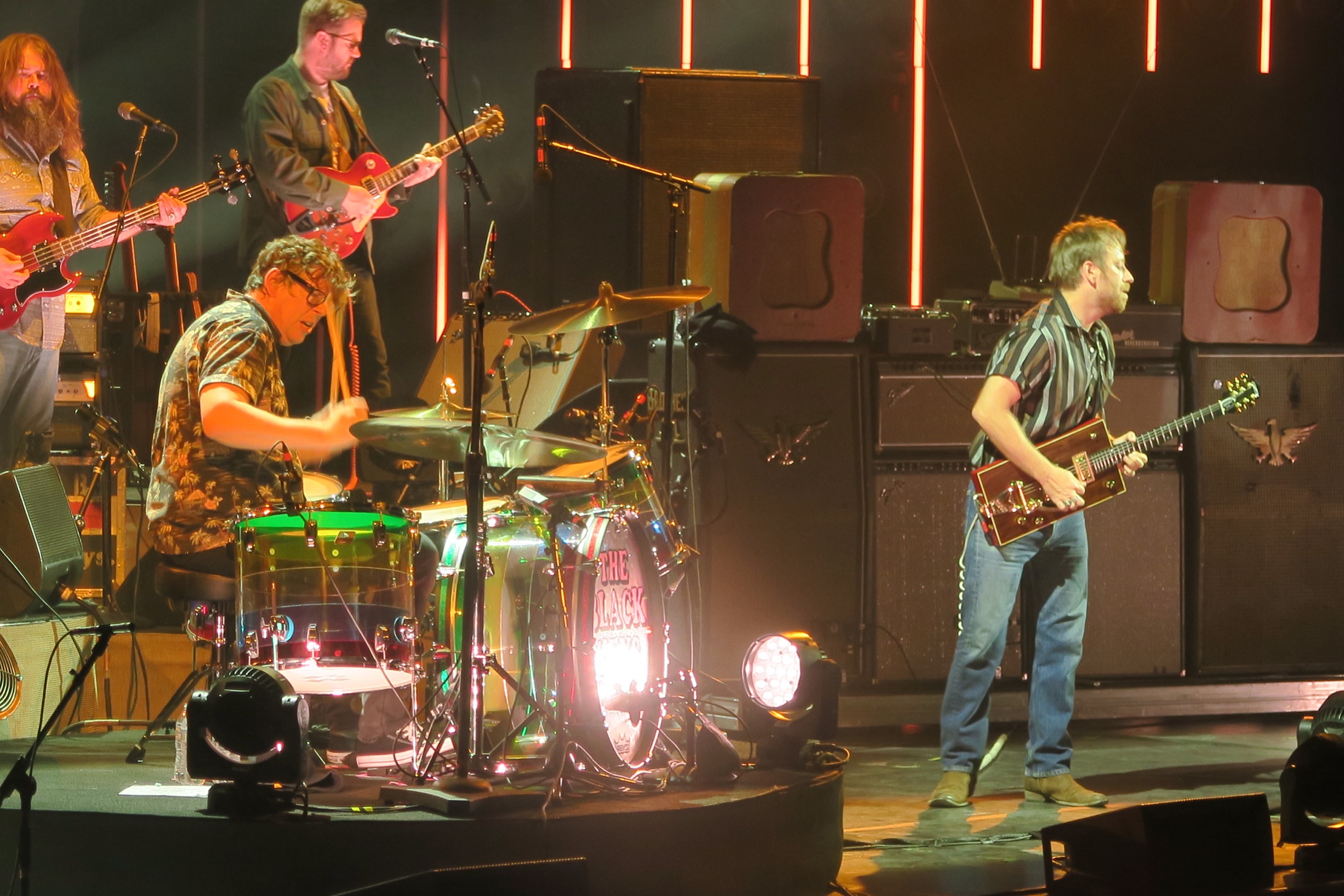 The Black Keys Moda Center Portland, OR 22-Nov-2019